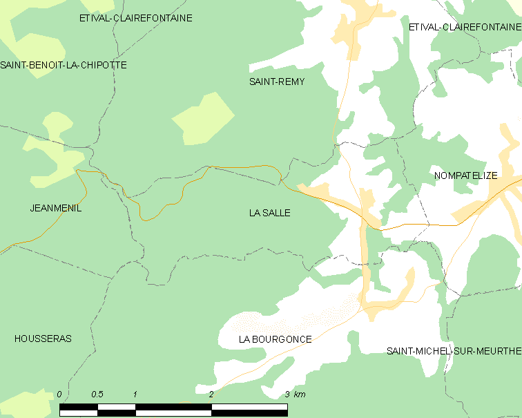 Map of French municipality La Salle